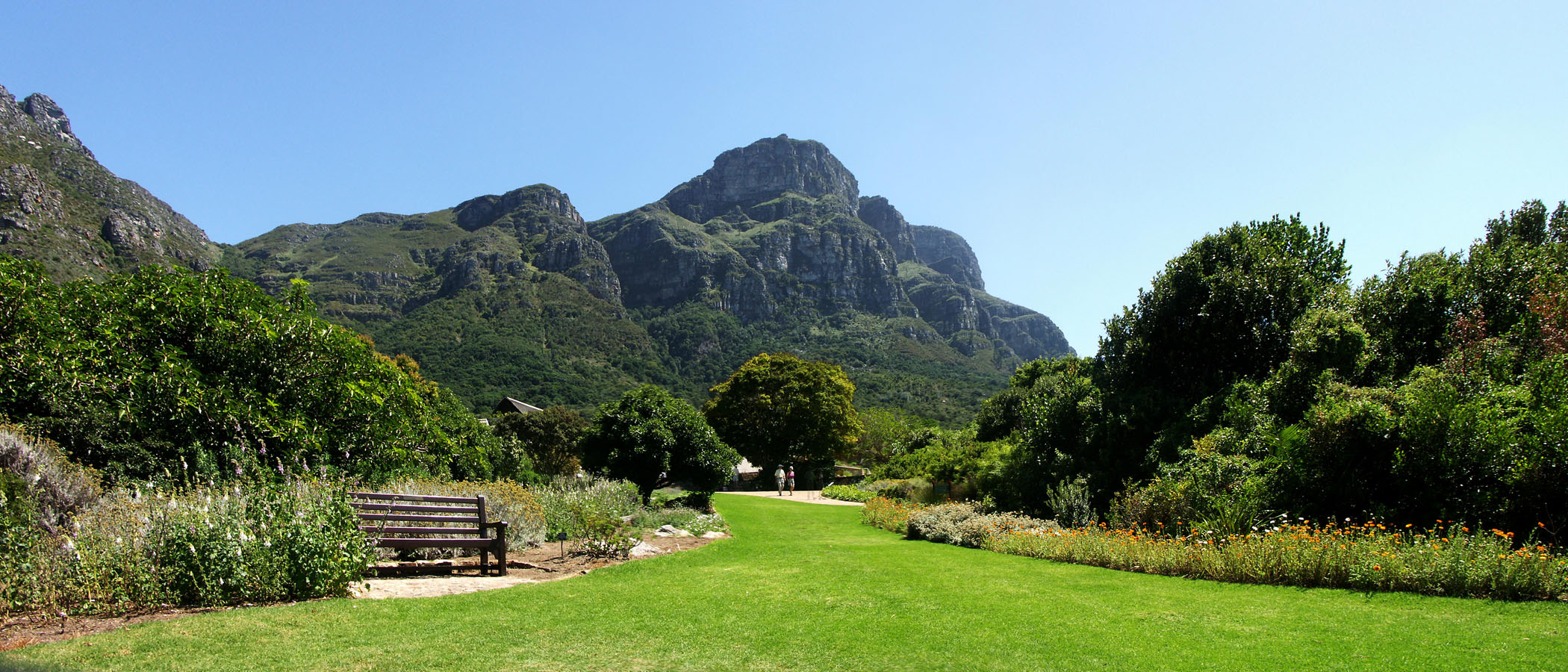 View of Table Mountain from Kirstenbosch Botanical Gardens